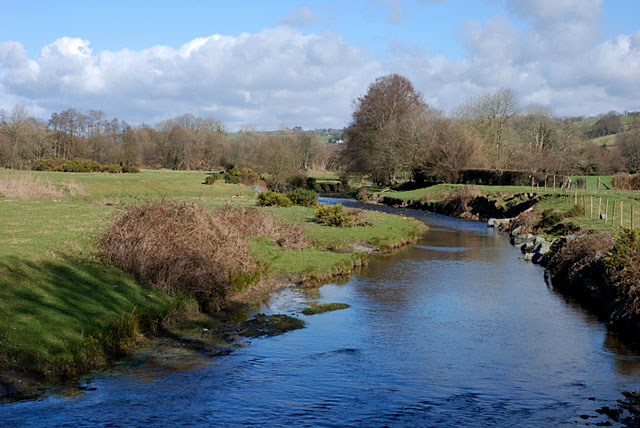 The Afon Aeron upstream near Capel Betws Lleucu Taken from the bridge west of the village.